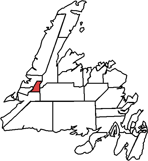 Maps based on images by Earl Warren, from the 2007 elections